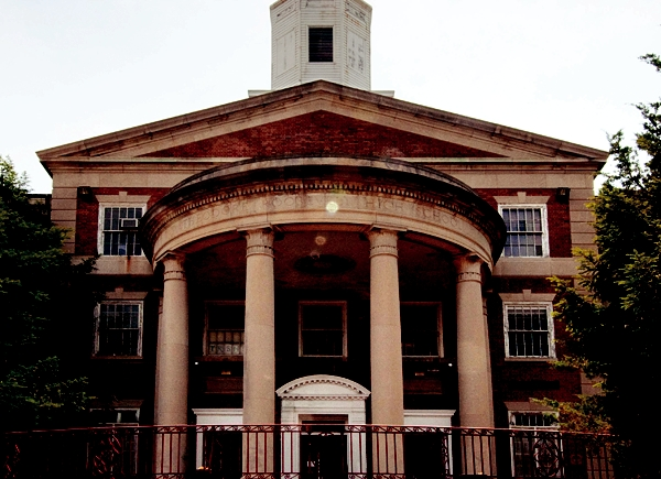 Theodore Roosevelt High School, Washington, DC